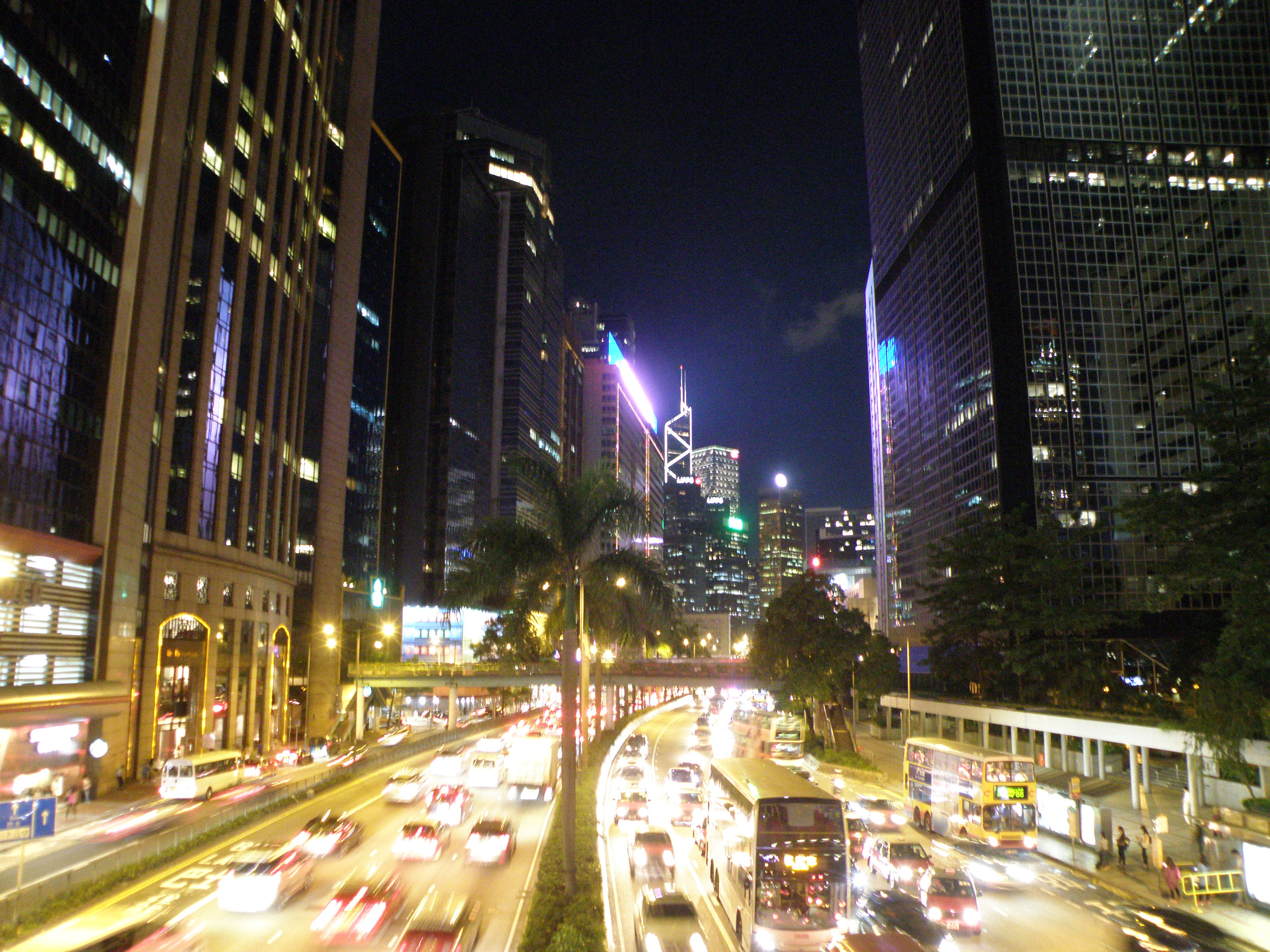 Wan Chai Section of Hong Kong Gloucester Road at night.